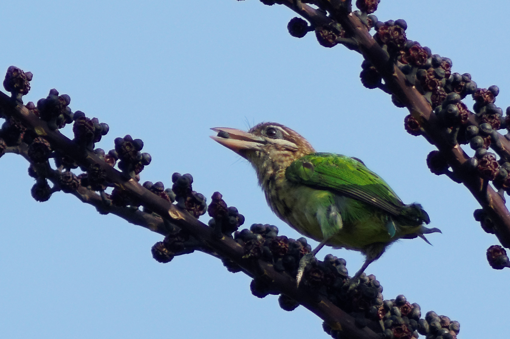 White cheeked Barbet at Lonavala, Maharastra, India